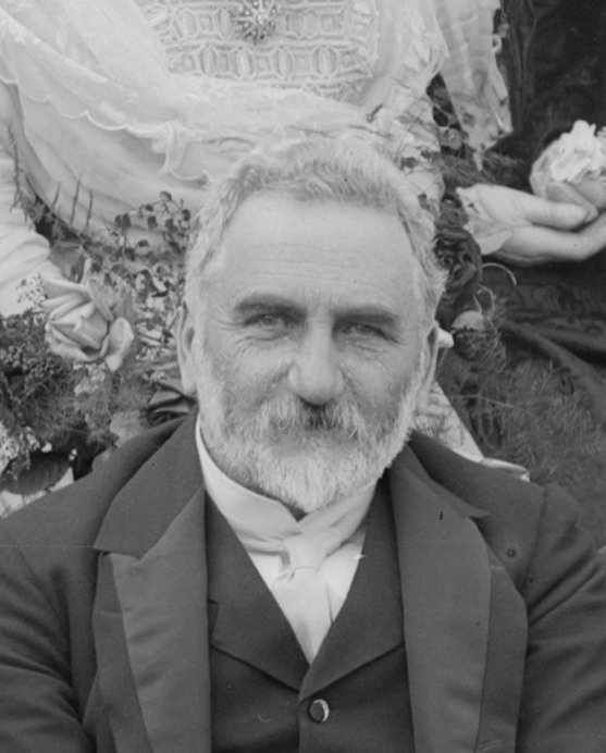 Wedding of Cyril and Elinor Ward, and silver wedding of Sir Joseph and Lady Ward, 1908. Photograph taken by Sydney Charles Smith. Location probably Wellington. Second row: bridesmaid Eileen Ward, unidentified, Cyril Ward, Elinor Ward, Joseph Ward, Lady Ward, Louisa Seddon, bridesmaid Gladys Webster. Front row: Hon J McGowan, Hon J A Millar, Sir George Gowlds, Hon T W Hislop, Rev Fr Hickson, Archbishop Redwood.